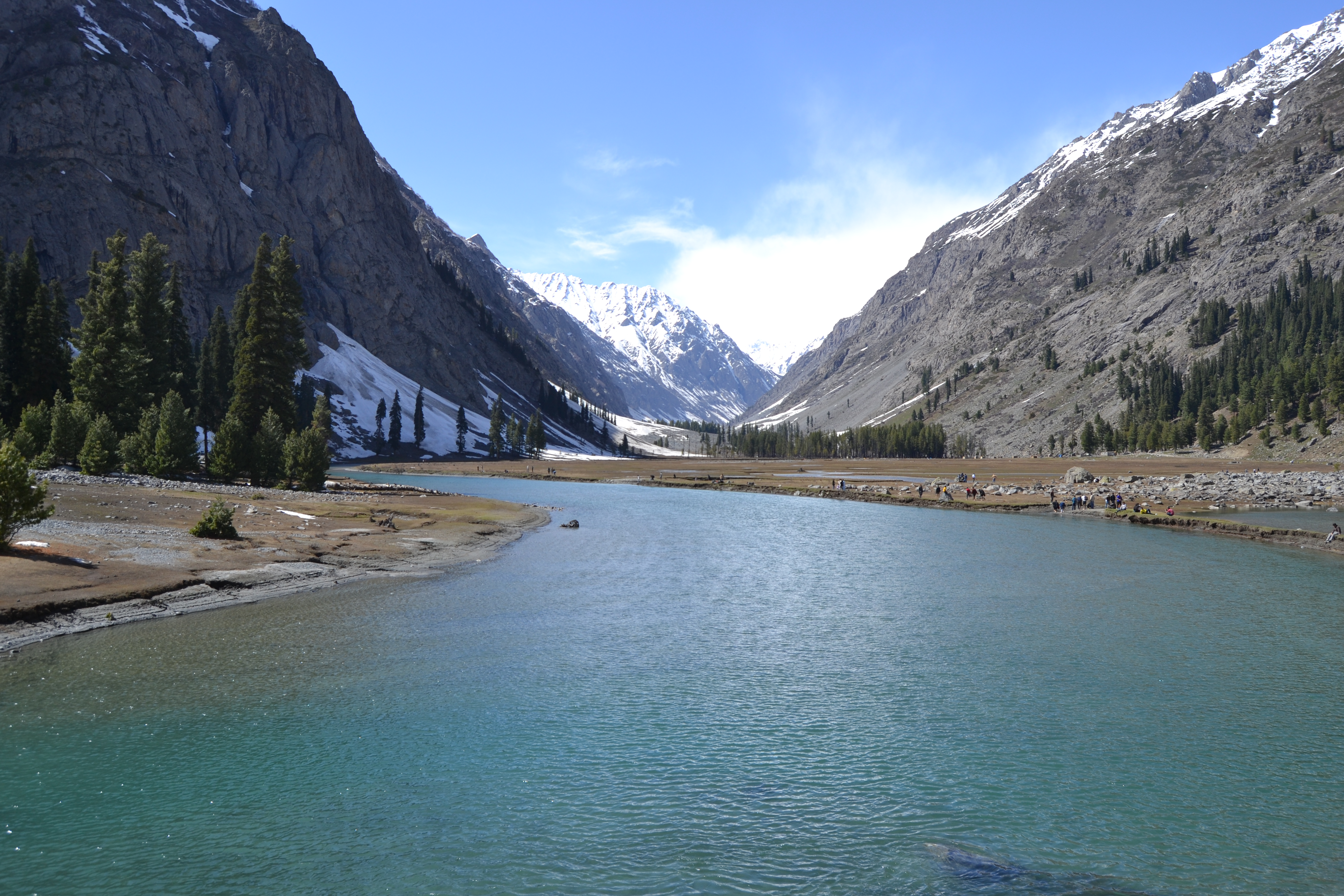 Mahodand Lake in Oshu Valley